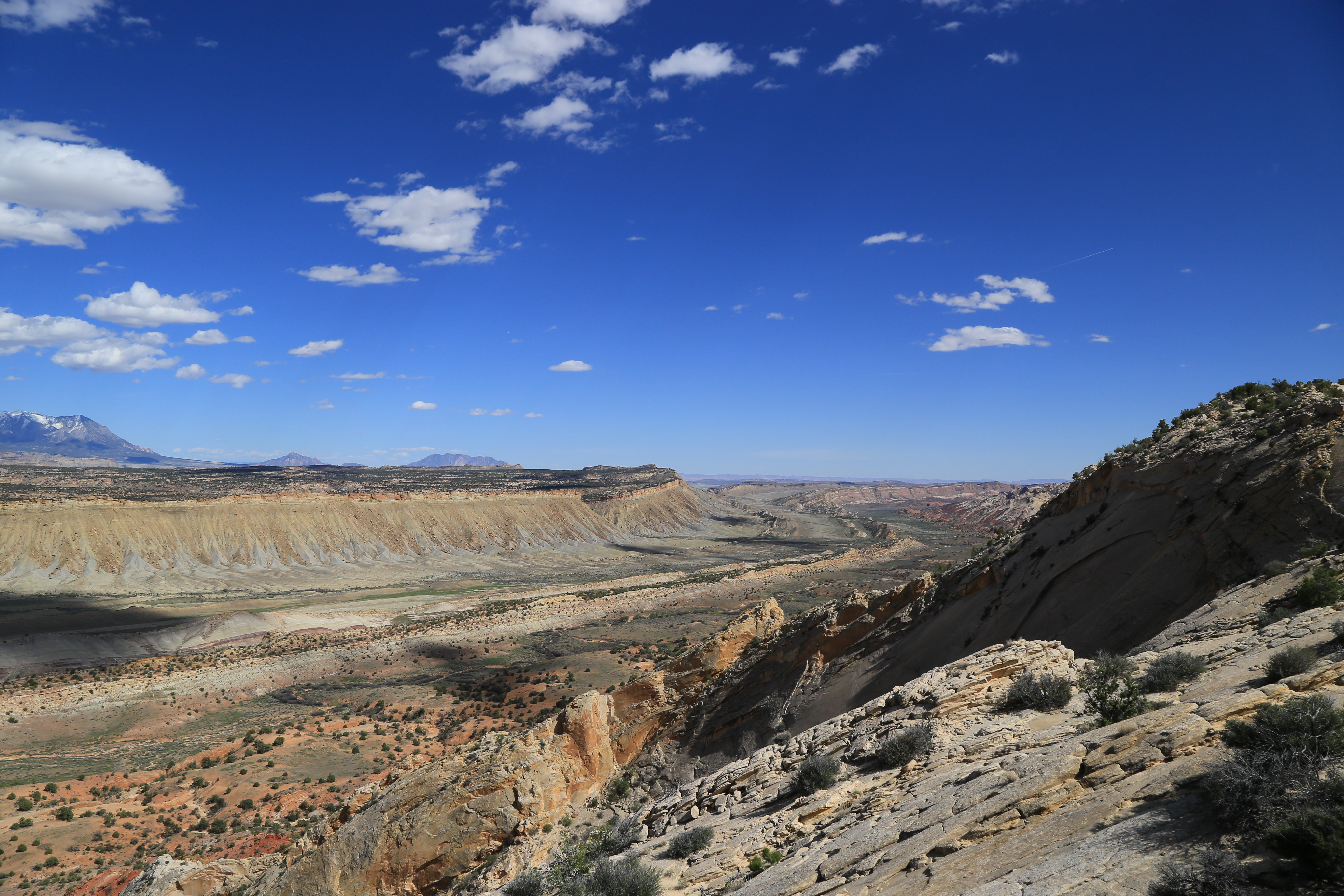 The Strike Valley is the most obvious evidence of the Waterpocket Fold in Capitol Reef National Park